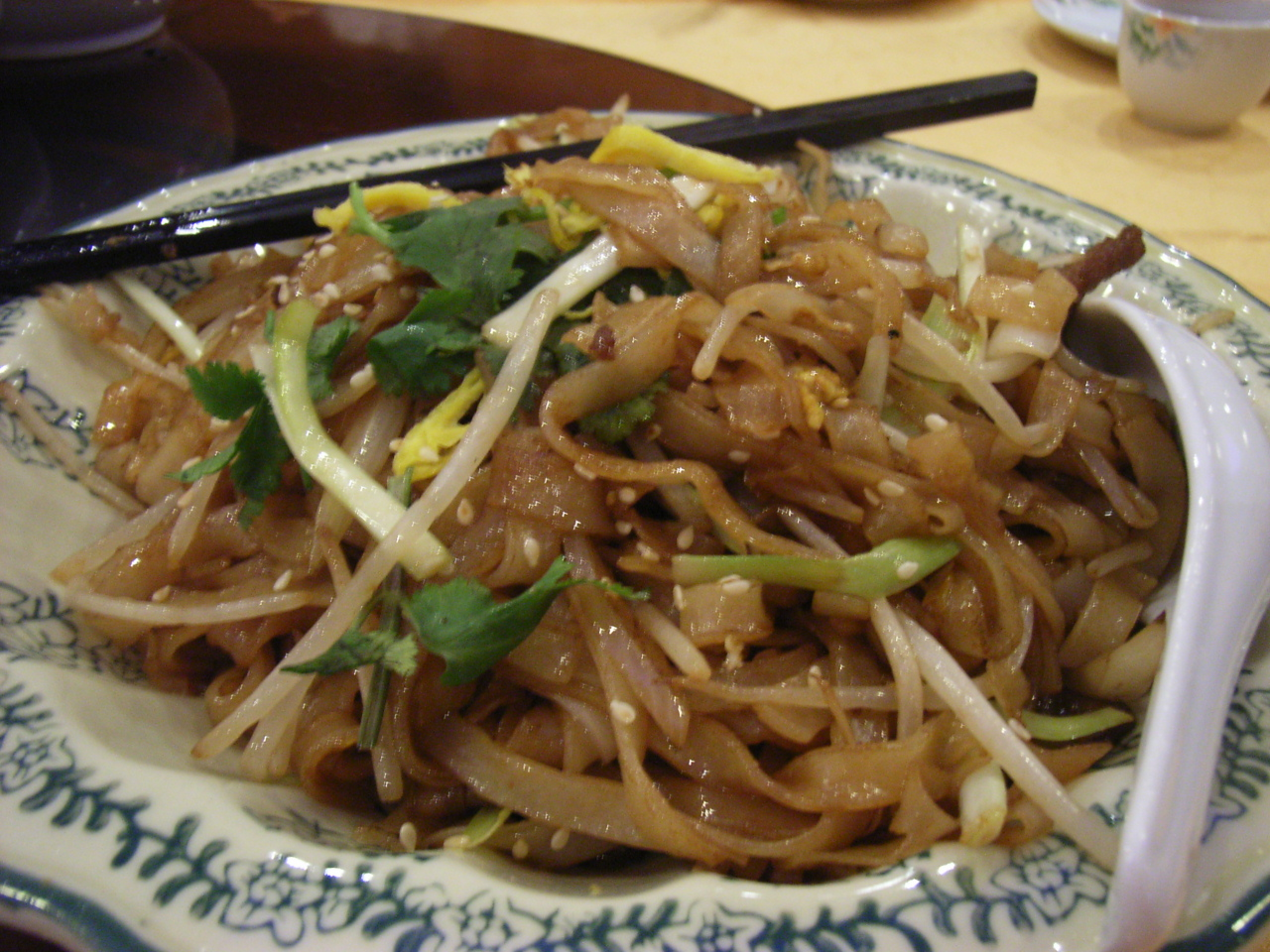 乾炒牛河 Chinese food - Fried Dry Rice Noodle with Sliced Beef with Soya Sauce.